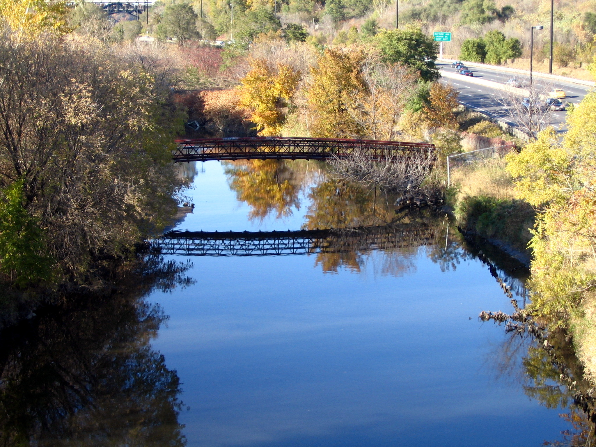 The Don River at Riverdale Park. Don Valley Parkway visible at right of photo. Toronto, Canada.